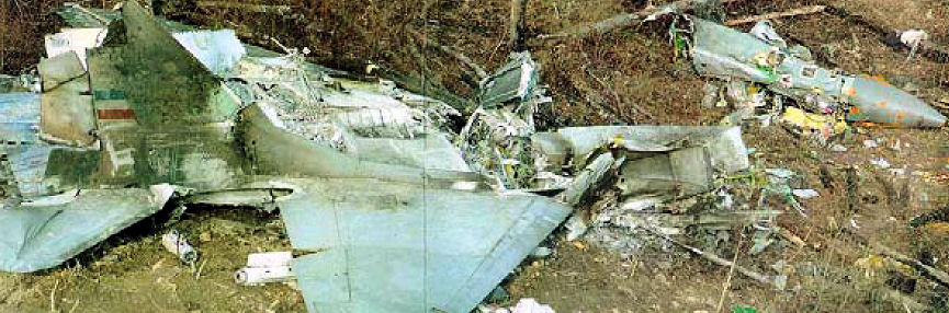 Remains of a MiG-29, courtesy of the 493d Fighter Squadron